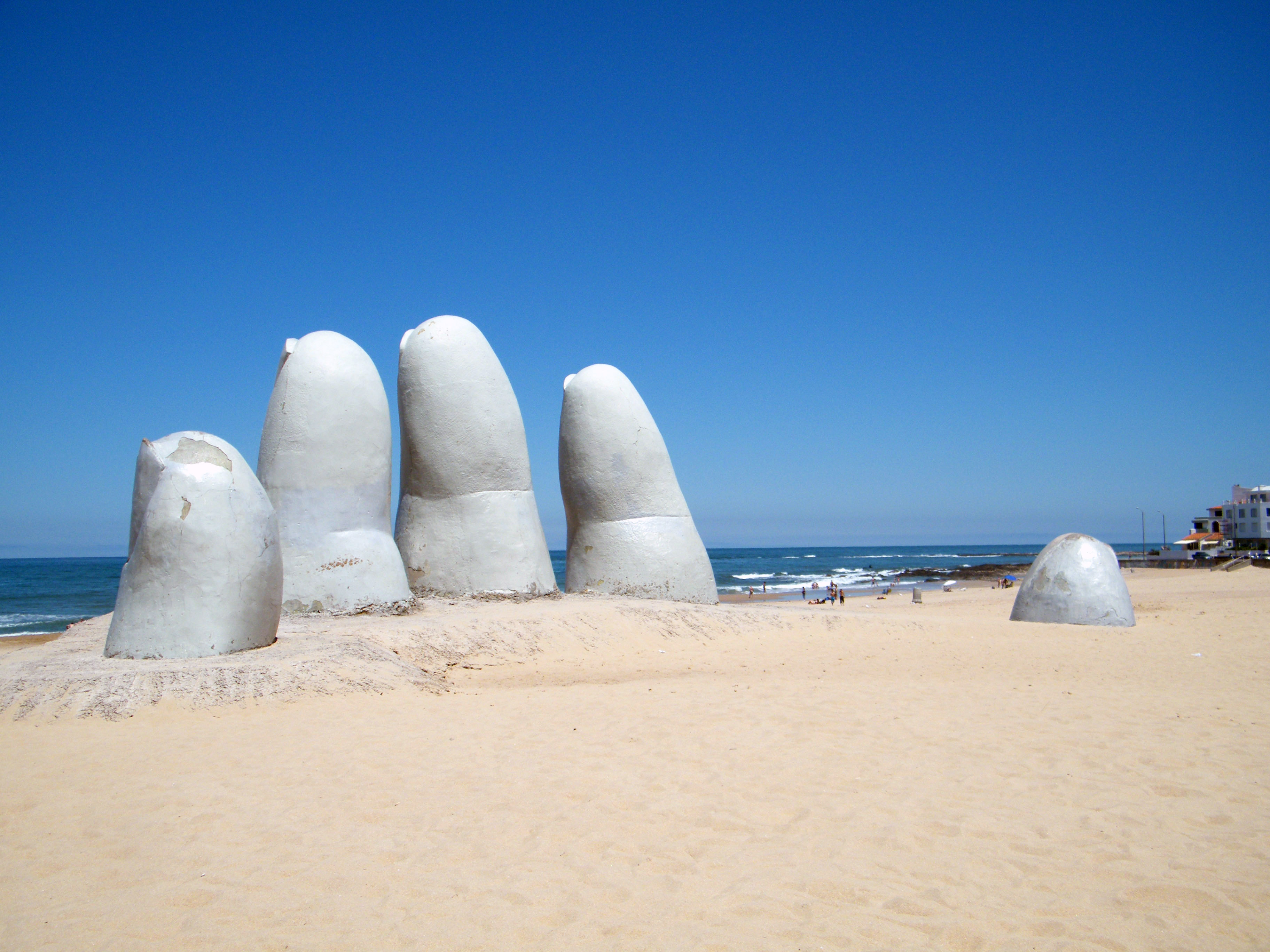 The Hand sculpture at Punta Del Este, Uruguay. Photographed by user Coolcaesar on November 20, 2012.